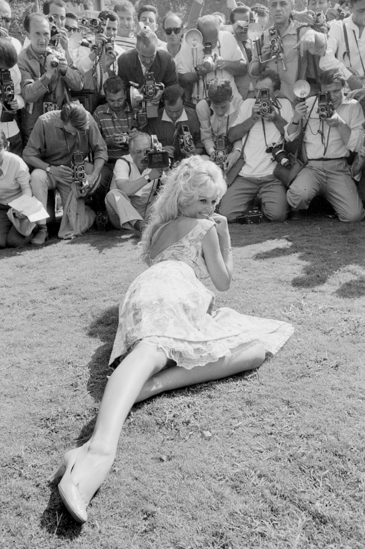 French actress Brigitte Bardot during 1958 Venice Film Festival. Venice, Italy, 1958.